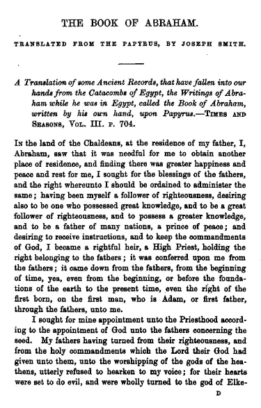 The first page of the Latter-day Saints sacred text, the Book of Abraham